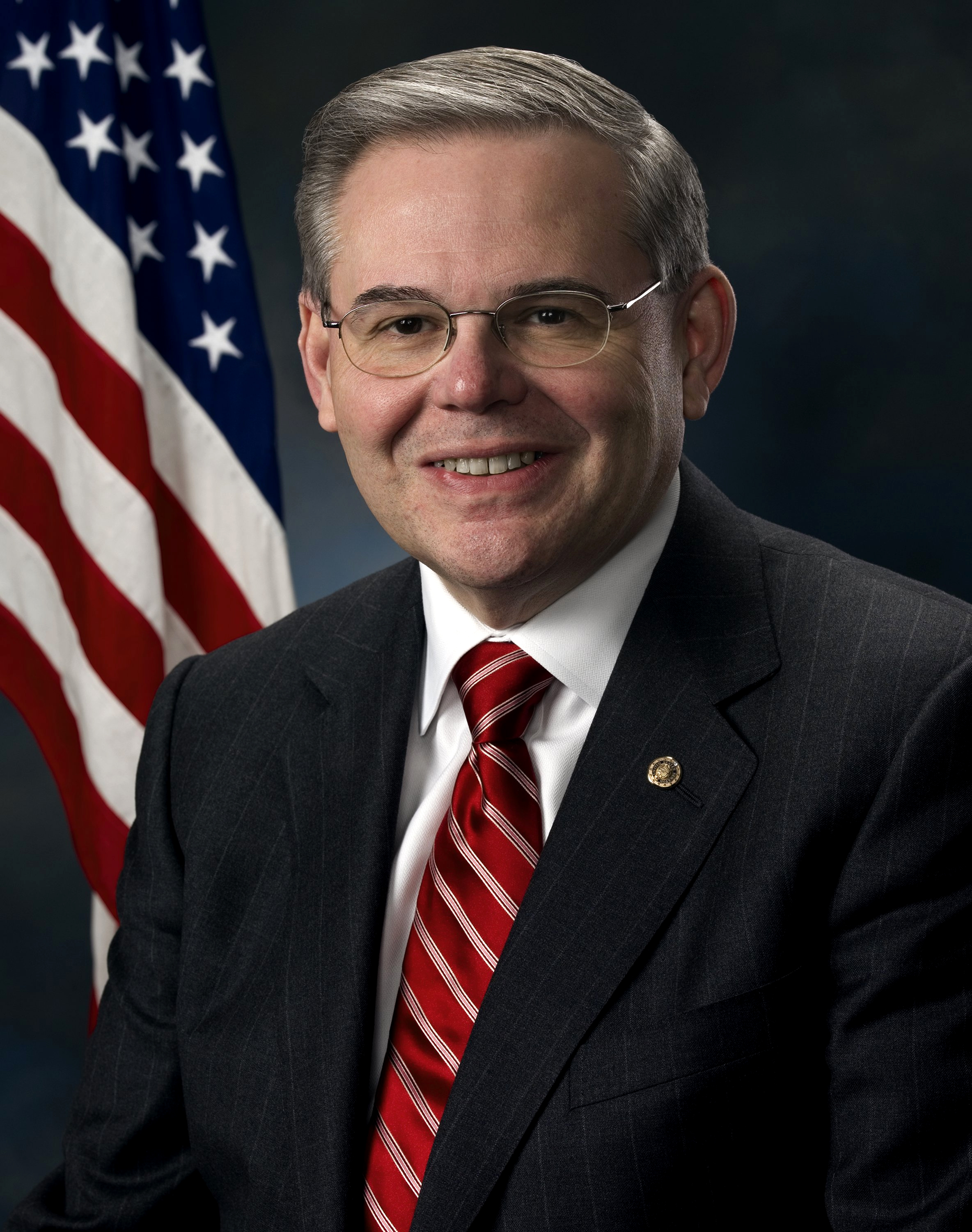 Robert Menendez, member of the United States Senate